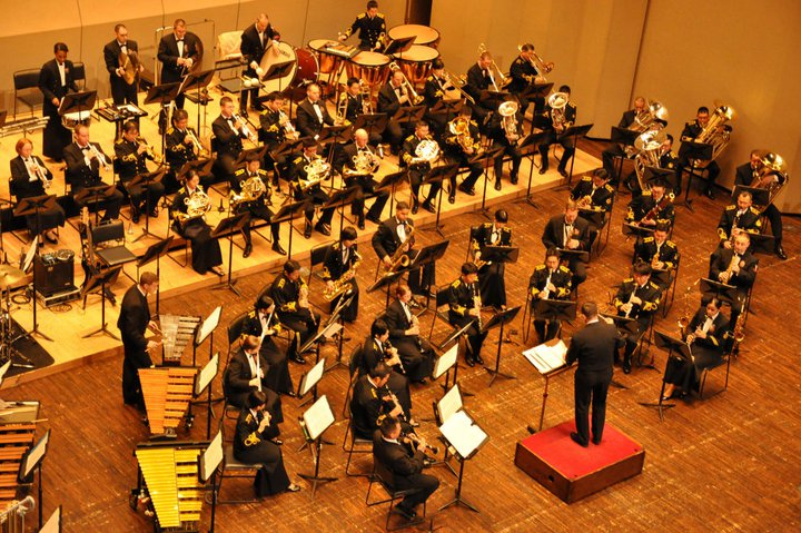 YOKOSUKA, Japan - Members of the U.S. Navy Seventh Fleet Band perform alongside the Japan Maritime Self Defense Force Band, Yokosuka district at the Yokosuka Arts Theater, Dec. 16, 2010. The two bands performed a series of holiday classic songs for Yokosuka residents, VIPs, service members and their families.